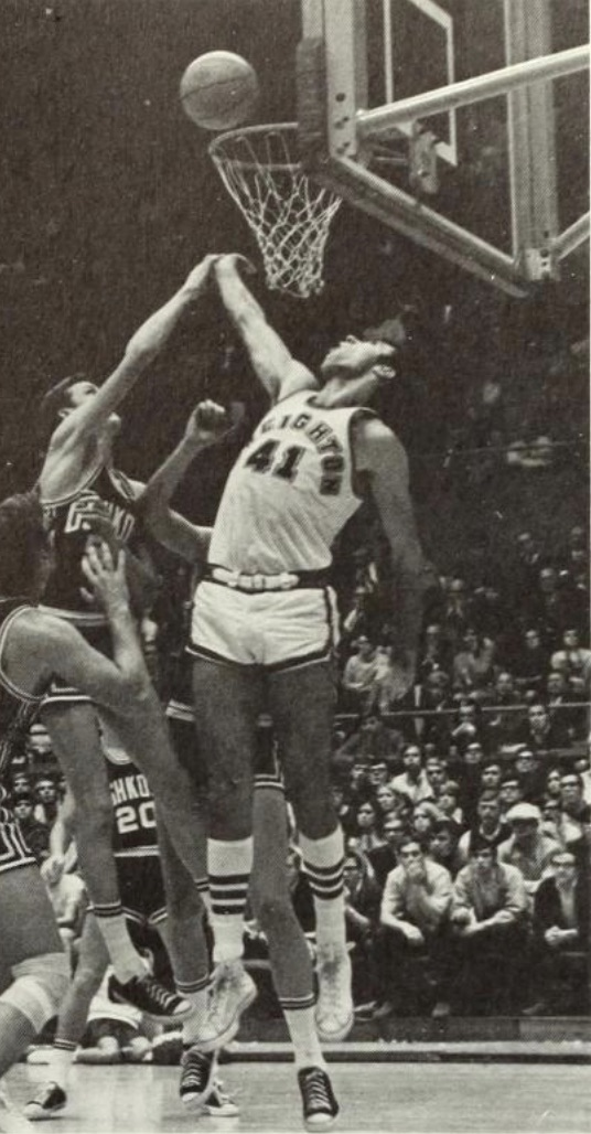 Joe Bergman tips the ball in for the Creighton Bluejays.